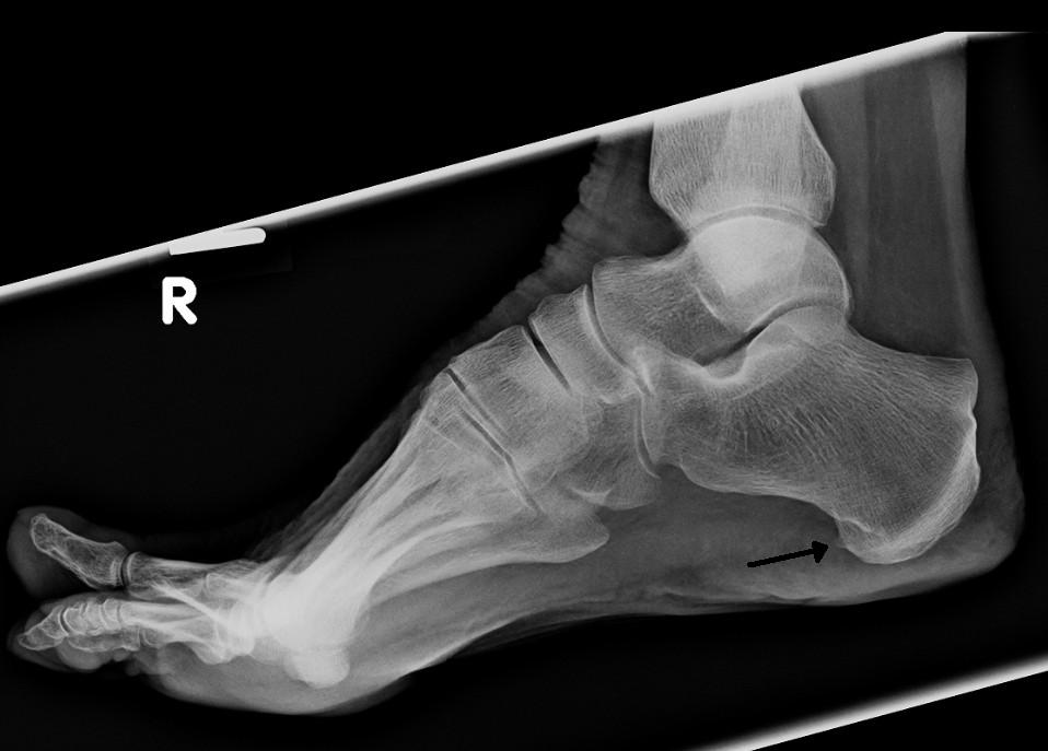 A small bone spur as marked by the arrow.